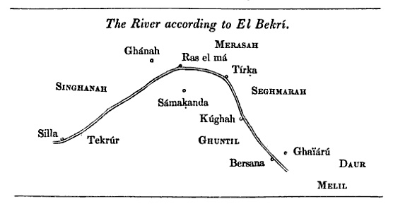 Conjectural sketch of the Senegal River based on the descriptions of Arab geographer al-Bakri of Cordoba in 1068, as reconstructed by William Desborough Cooley in The Negroland of the Arabs examined and explained; or, An inquiry into the early history and geography of Central Africa London: Arrowsmith, 1841 p.53.